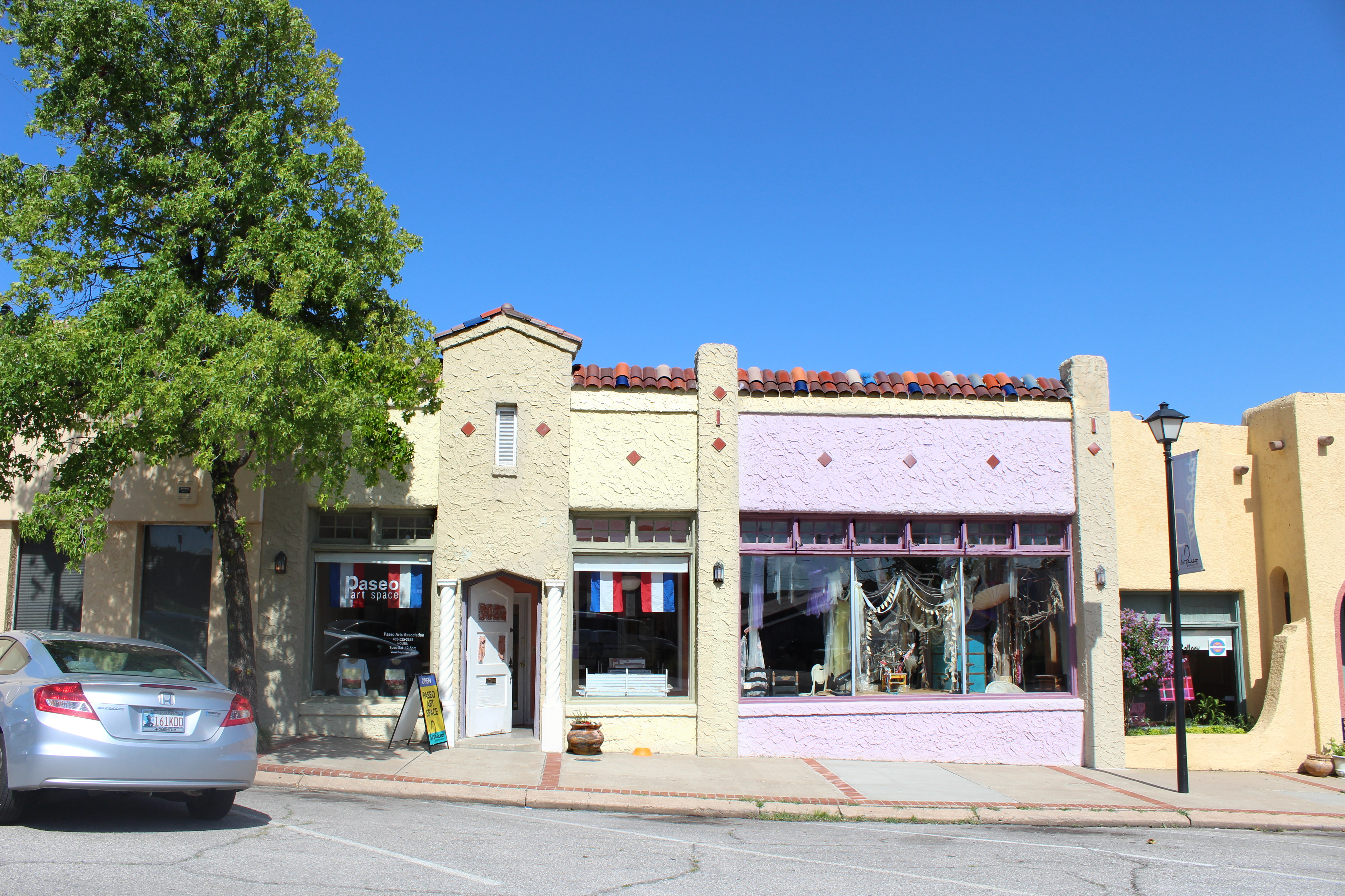 Paseo Arts District - Oklahoma City, OK USA, PASEO ART SPACE